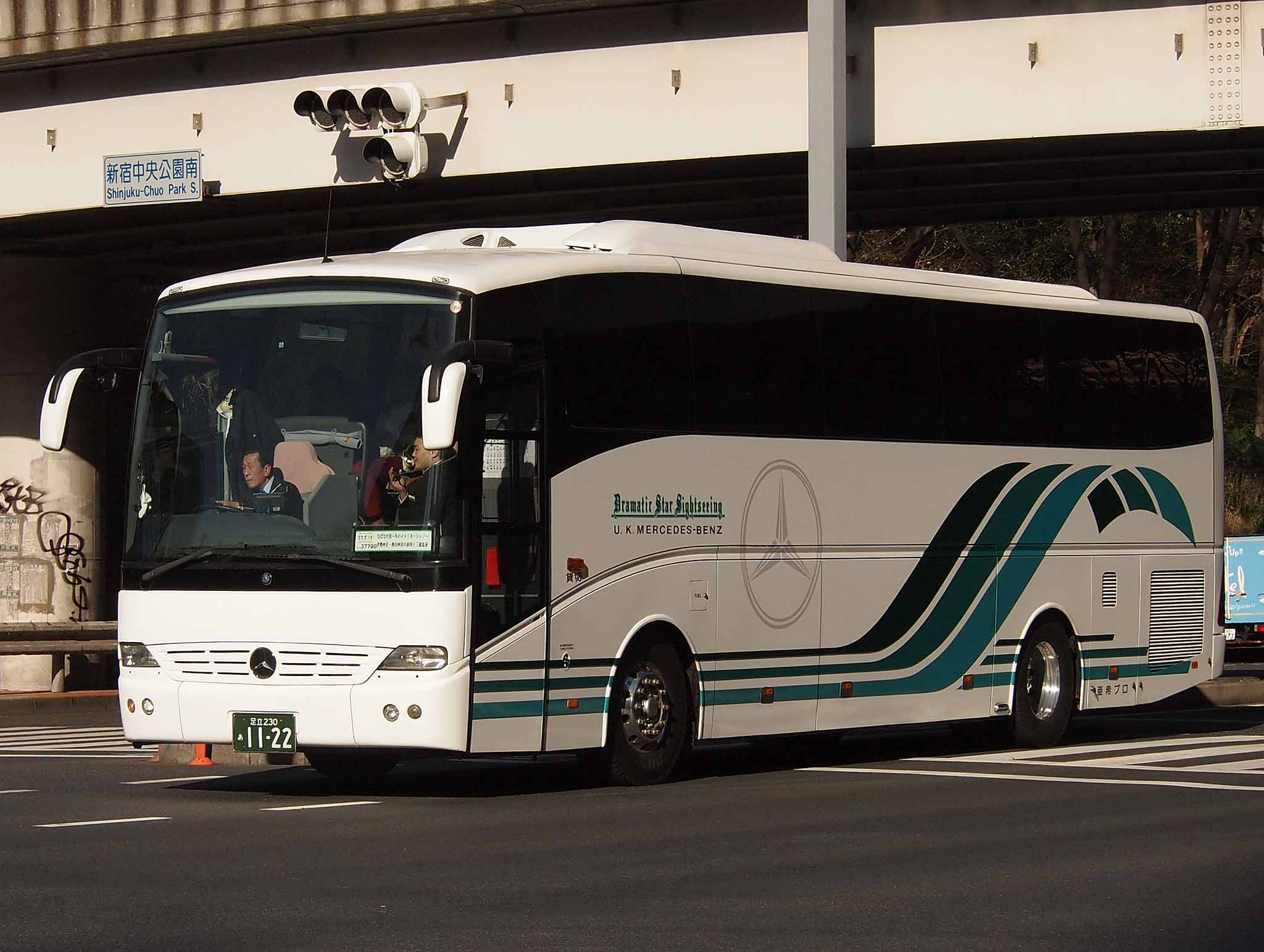 Mercedes-Benz OC500RF Touro in Japan, operated by Aki pro. License plate: TKA230 A1122 Place: Nishi-shinjuku, Shinjuku Ward, Tokyo Japan